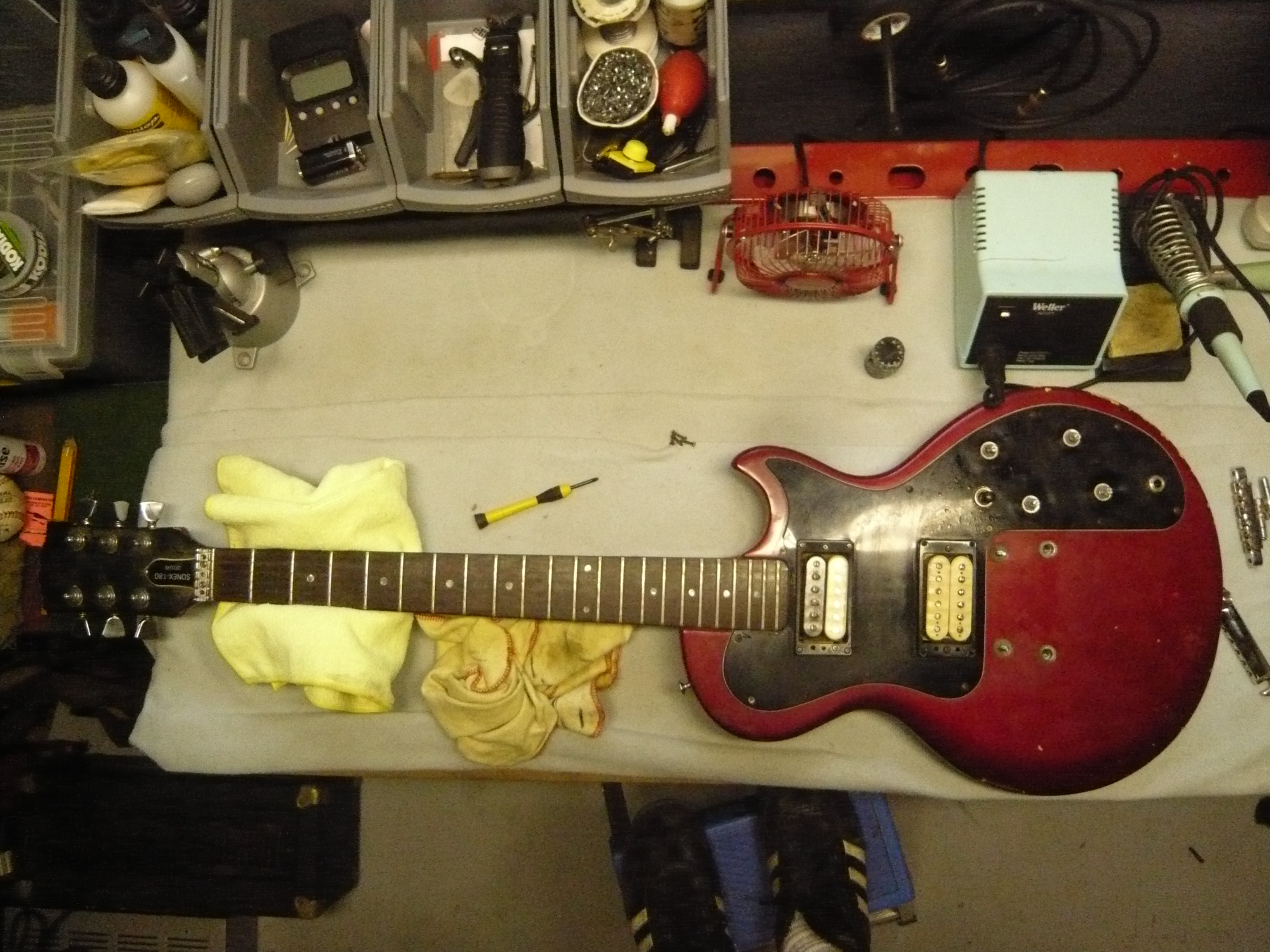 A full length shot of the Gibson Sonex 180 Deluxe (under repairing). Note: knobs, PU covers, bridge & tailpiece are temporally detached to repair. Also lockable nut may be latter addition.